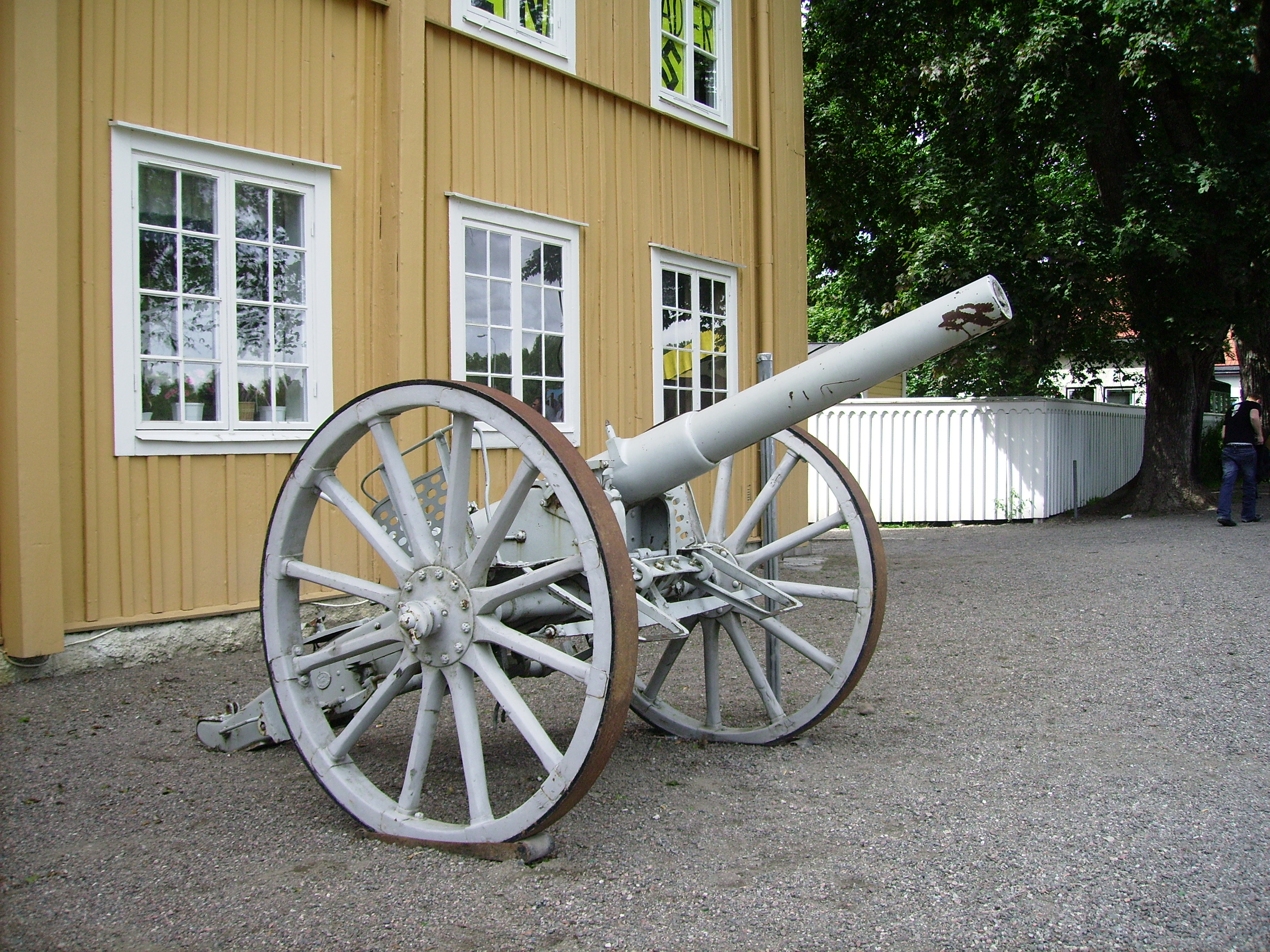 Picture of a 84 mm canon M/1881 in Malmköping in Södermanland